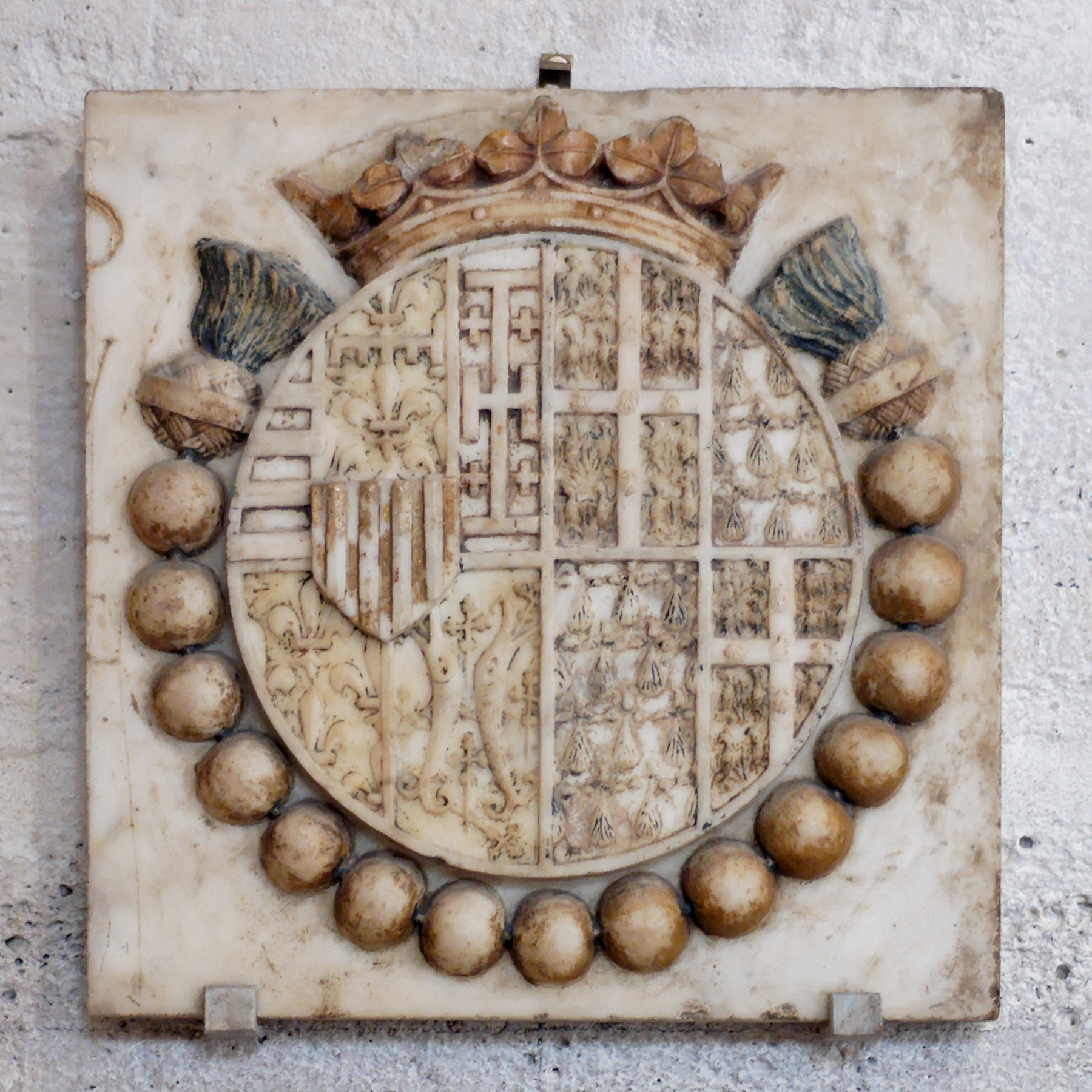 Coat of arms of René of Anjou, king of Naples and Jerusalem (1409–1480) and of his second wife, Jeanne de Laval (1433–1498). Marble with traces of polychromy, date unknown. From the base of the Bearing of the Cross altarpiece in Saint-Didier at Avignon.